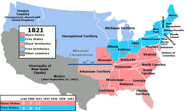 Map showing which areas of the United States did and did not allow slavery between July 1821 to August 1821. The map colorings of some areas require further comment. New York (1799) and New Jersey (1804) adopted laws gradually freeing enslaved people, but some people in these states remained enslaved until 1824 (NY) and 1865 (NJ). Territories and states which had not specifically banned slavery are colored red/pink.